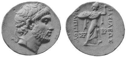 From 1889 edition of _Principal Coins of the Ancients_ Public Domain scans offered by ESnible from his site (July 10th agreement by e-mail).